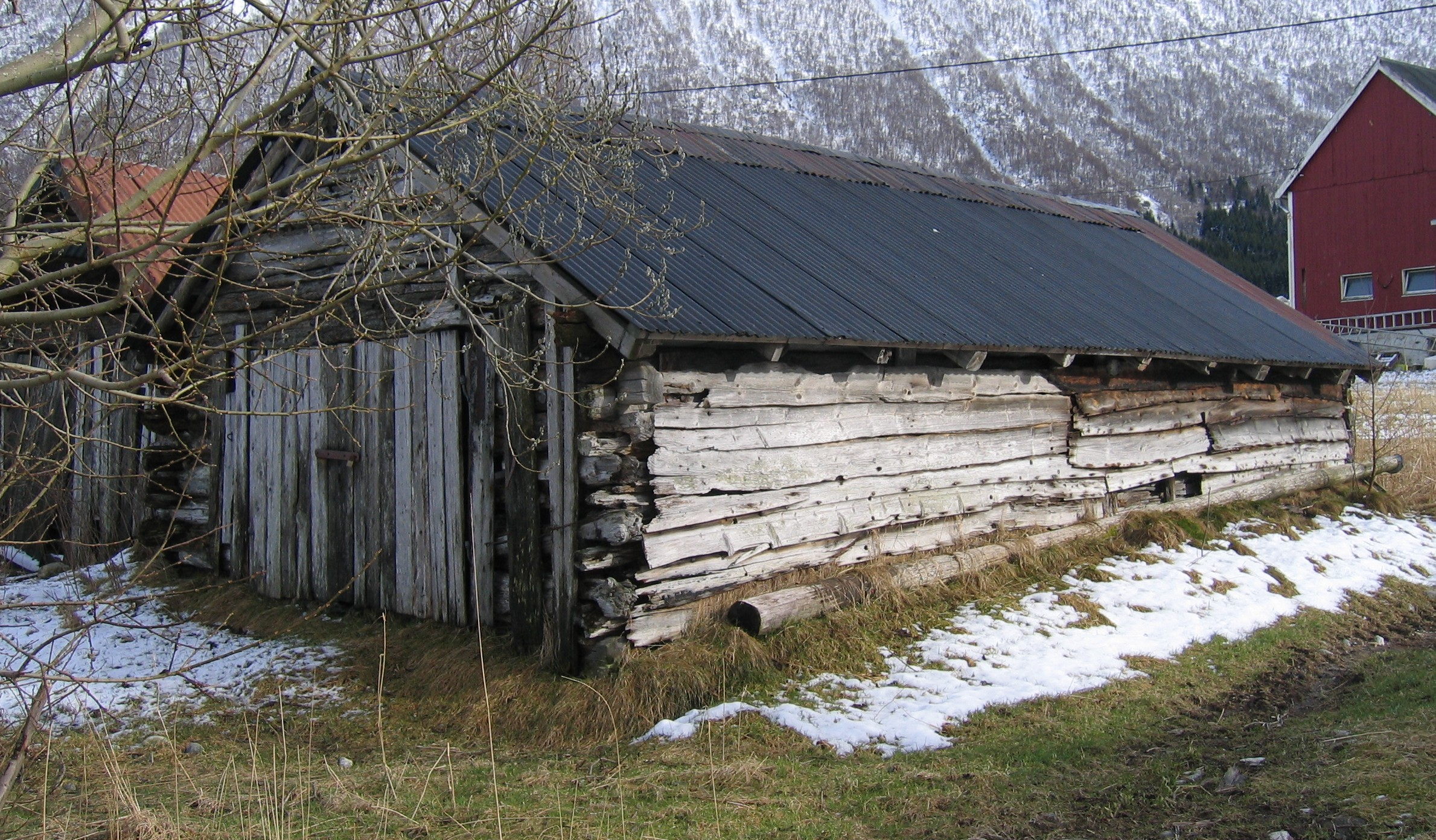 Naust, norwegian boathouse